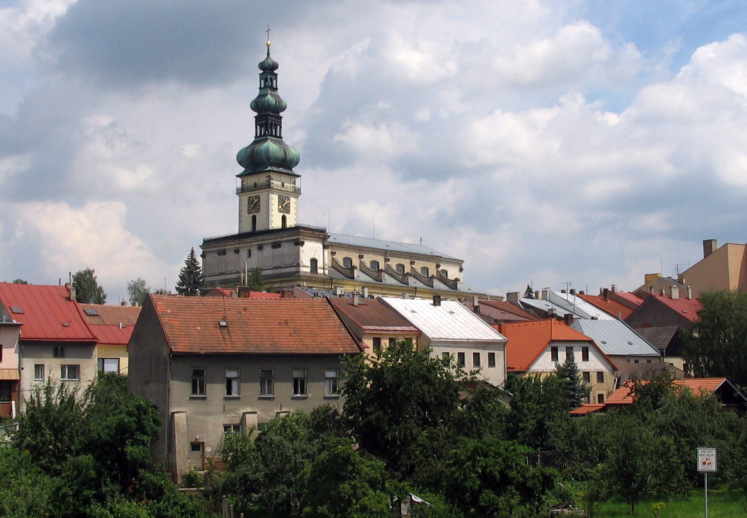 View on Polná(Czech republic).